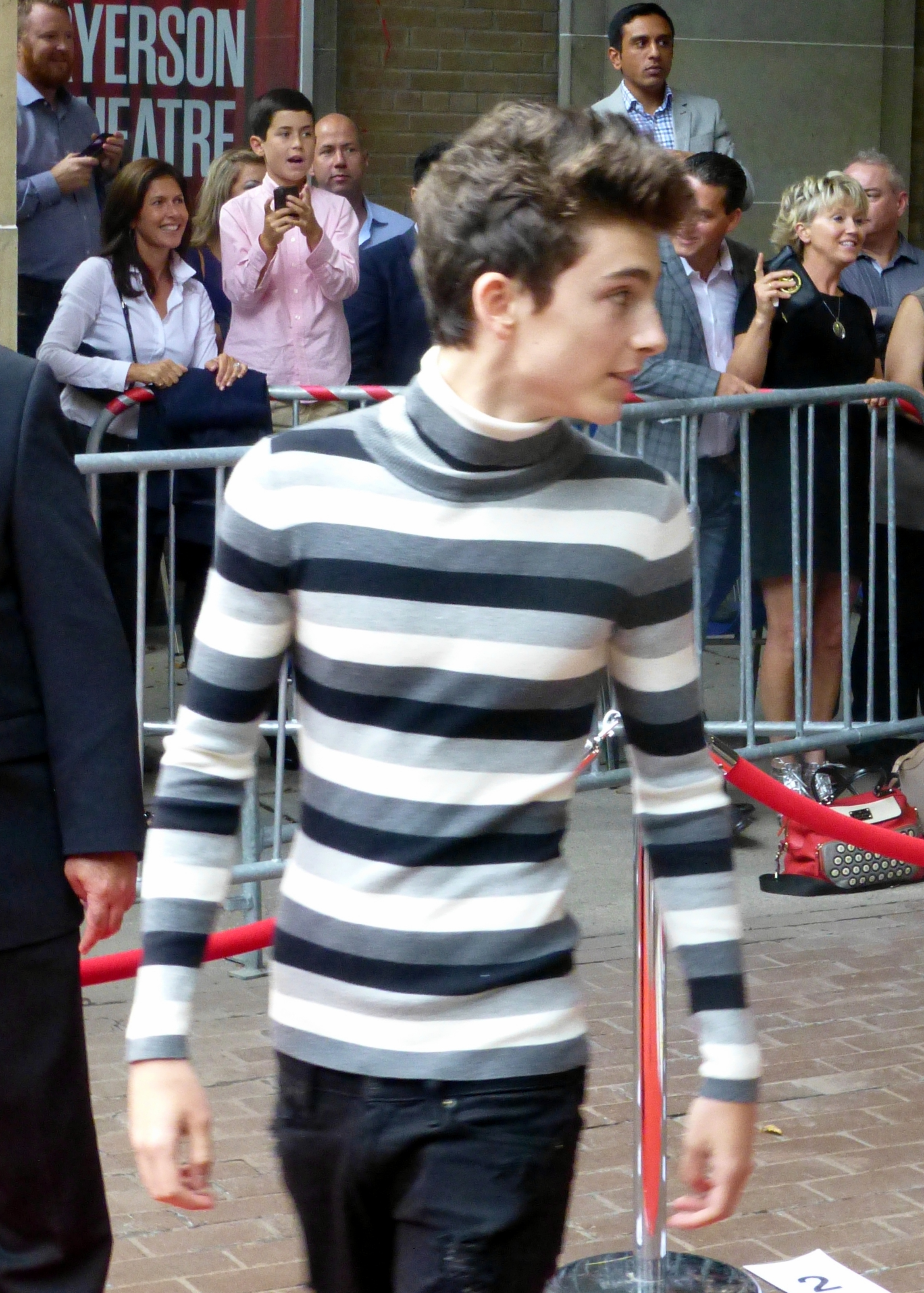 Timothee Chalamet at the premiere of Men, Women, and Children, 2014 Toronto Film Festival